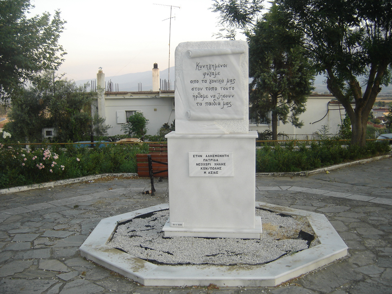 The Memorial plaque devoted by Municipality of Dion (Dimos Diou) to people who fled Minor Asia village of Yenikoy (Neohori Chilis) and came to stay in Kondariotissa, Pieria. The plaque, inaugurated in Kondariotissa, Pieria, 30 April 2006, reads: "We fled our parents chased, coming to this place, for our children to live". The devotion inscription writes: "To our unforgetable homeland, Neochori Chilis Asia Minor". User:Lemur12 devotes this photo to his parental grandfather's and grandmother's memory. "By taking this photo and releasing it on public domain we want to pay tribute to you, Greeks of Asia Minor who fled your homeland and came to our country".